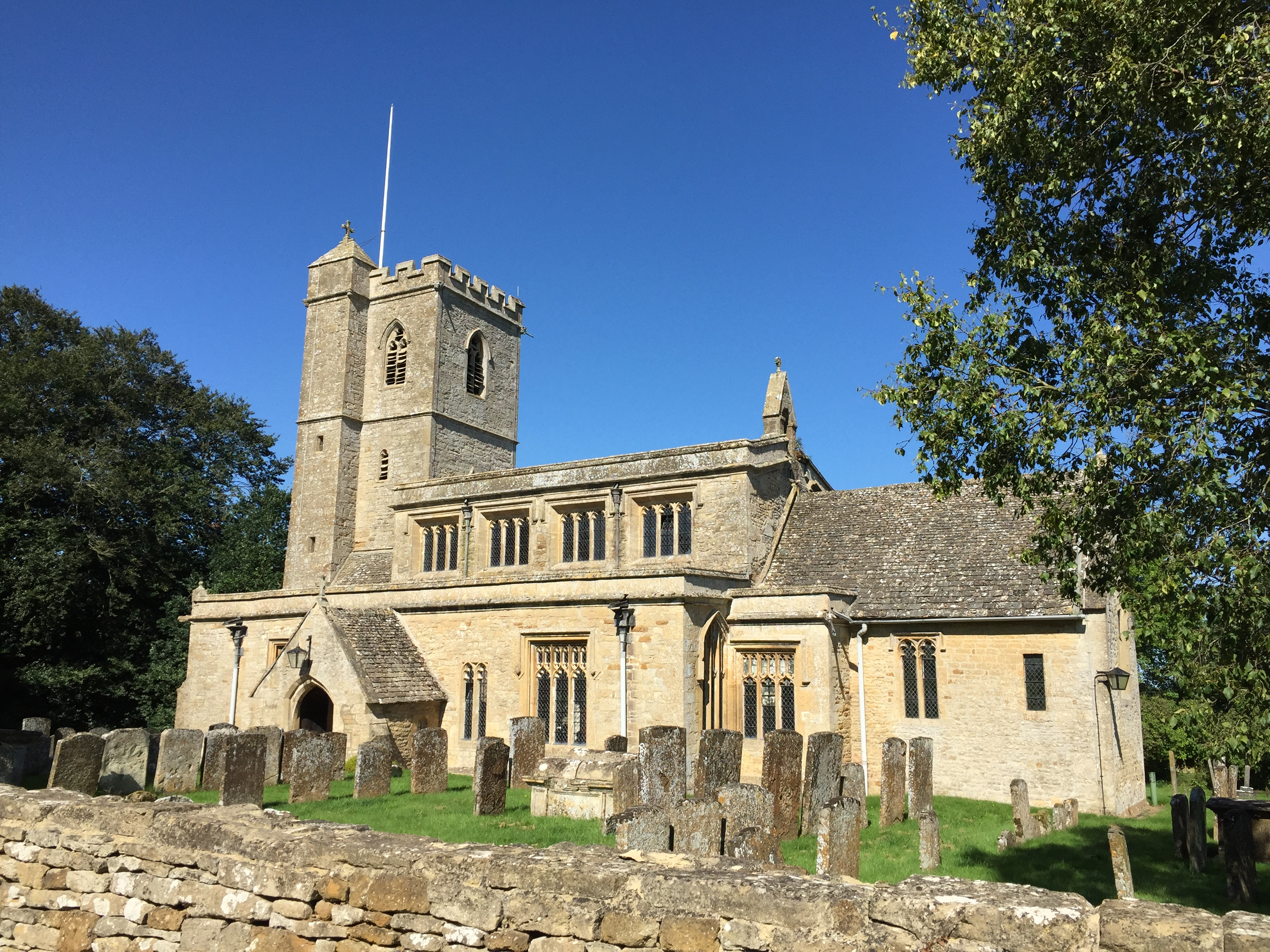 Parish church of Saint Leonard in the village of Bledington, Gloucestershire, England, dating from the 12th century